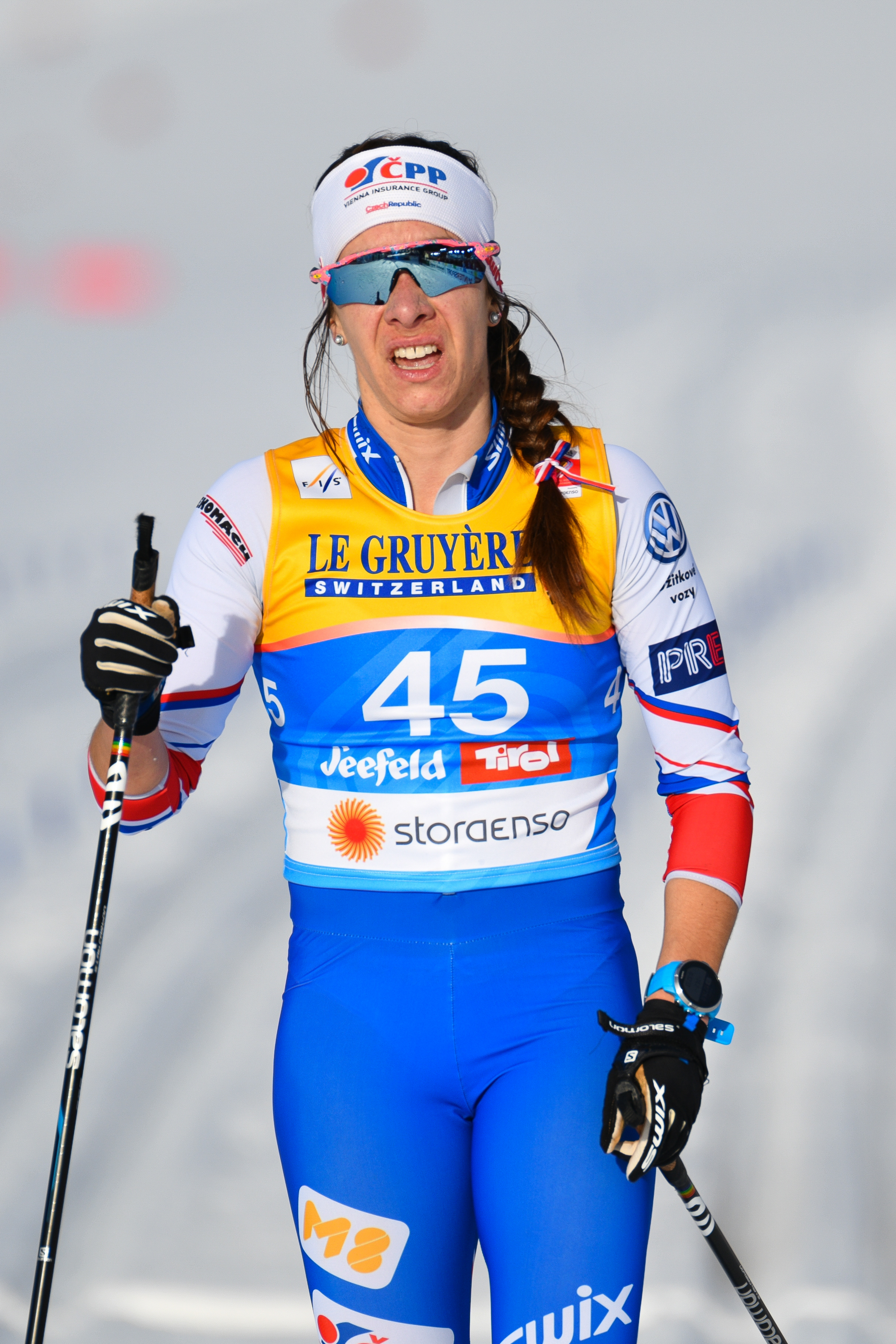 FIS Nordic Wolrd Ski Championships Seefeld 2019 - Ladies Cross Country 10km. Picture shows Petra Hyncicova (CZE).